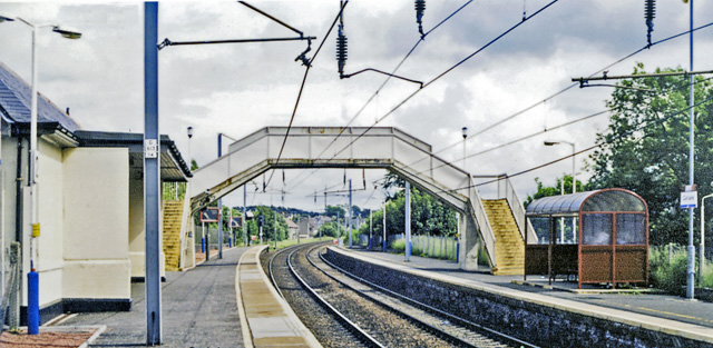 Carluke Station, View SE, towards Carstairs etc.; ex-CR Glasgow - Carstairs - Carlisle Main line (WCML), electrified 1974.